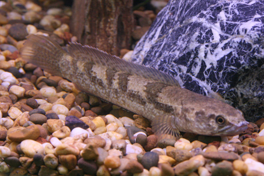 A five-stripped snakehead fish (Thai: ปลาช่อนห้าแถบ), belonging to an undescribed species of the Channa family, at the 20th Pramong Nomklao fish show event at the Future Park Rangsit, Thailand, in July 2008. Picture taken by myself.